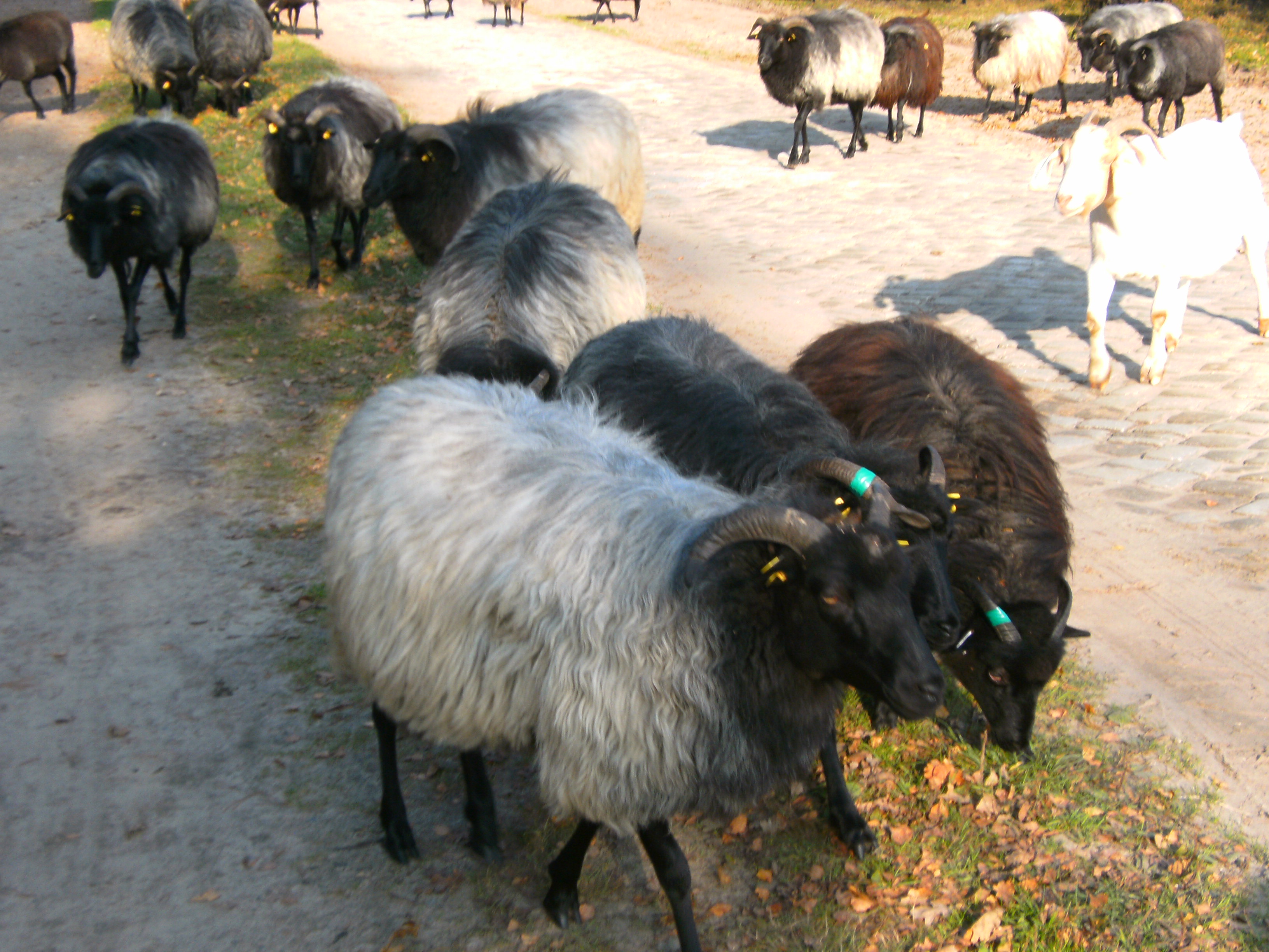 Flock of moorland sheep in Lüneburg Heath between Undeloh and Wilsede, Germany. Earmarks.